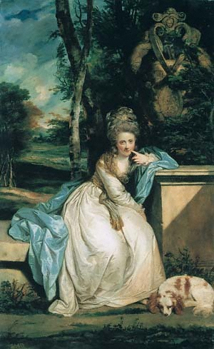 Mary Boyle (presumably oil on canvas)